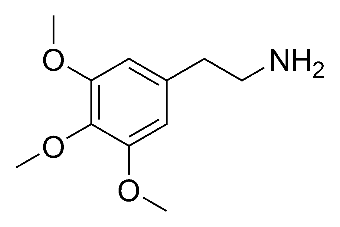 chemical structure of mescaline